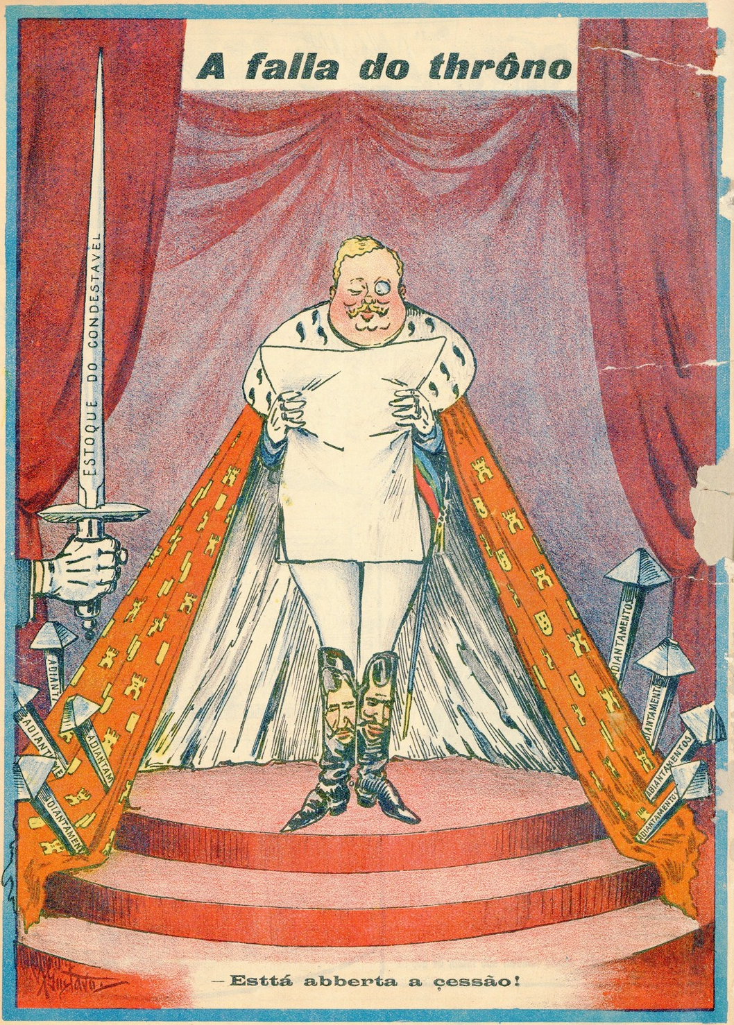 The speech from the throne, a 1907 caricature of King Carlos I of Portugal, by Manuel Gustavo Bordalo Pinheiro.